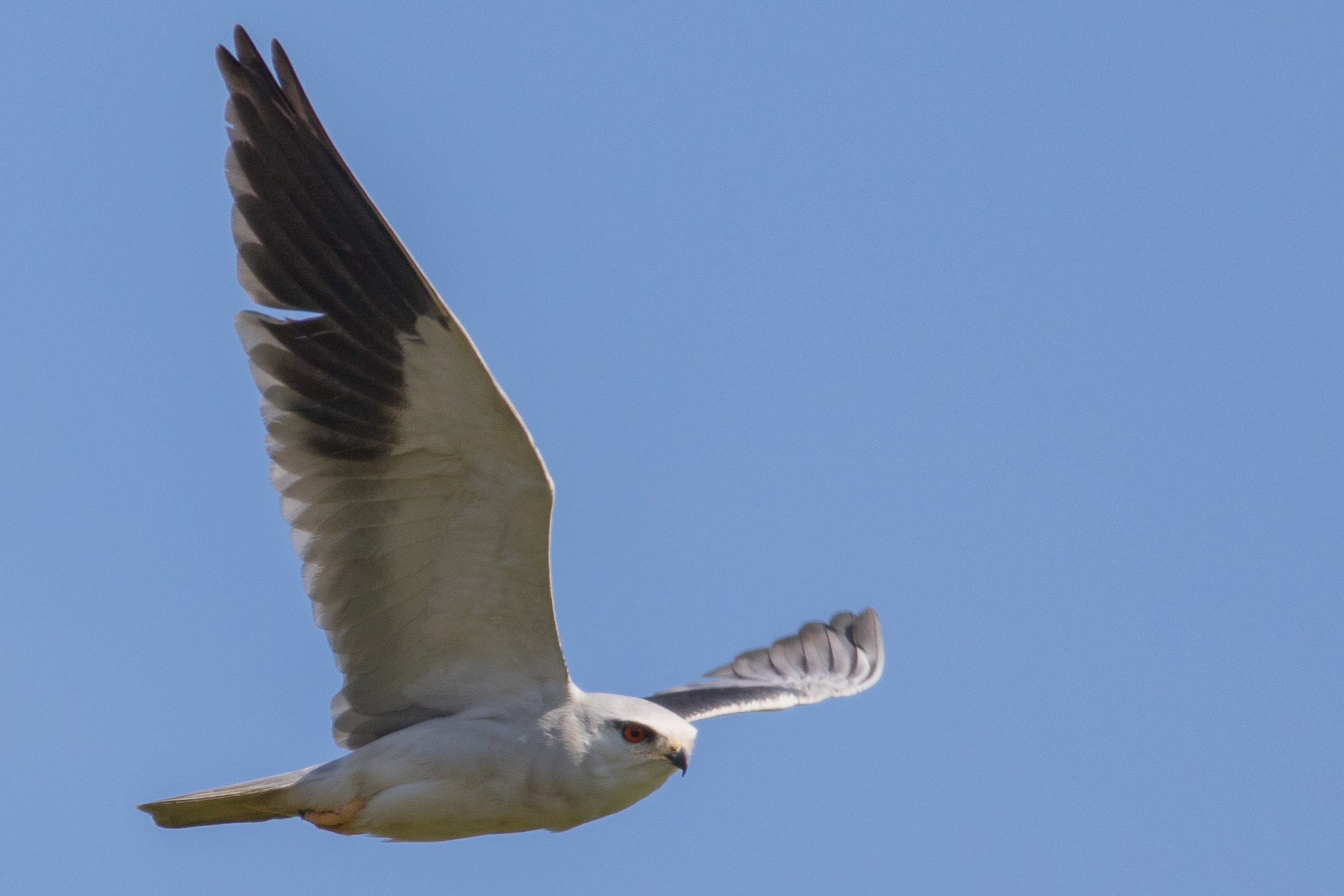 Elanus caeruleus in flight, Agamon Hula, Israel.